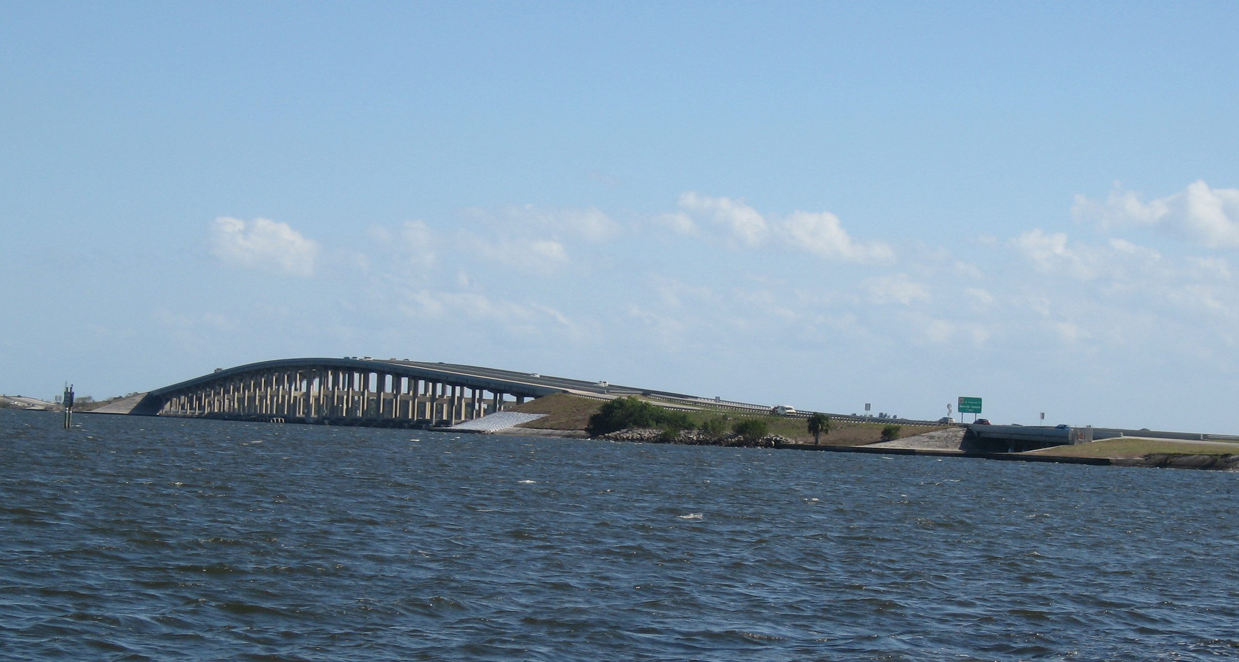 This section of Pineda Causeway includes the bridge over the Indian River with Melbourne on the west bank and the southern tip of Merritt Island on the east bank. This photograph was taken at POW-MIA Park (formally Pineda Landing Park), 5985 North U.S. 1, Melbourne, Florida on the west bank of the Indian River and on the north side of the Causeway.